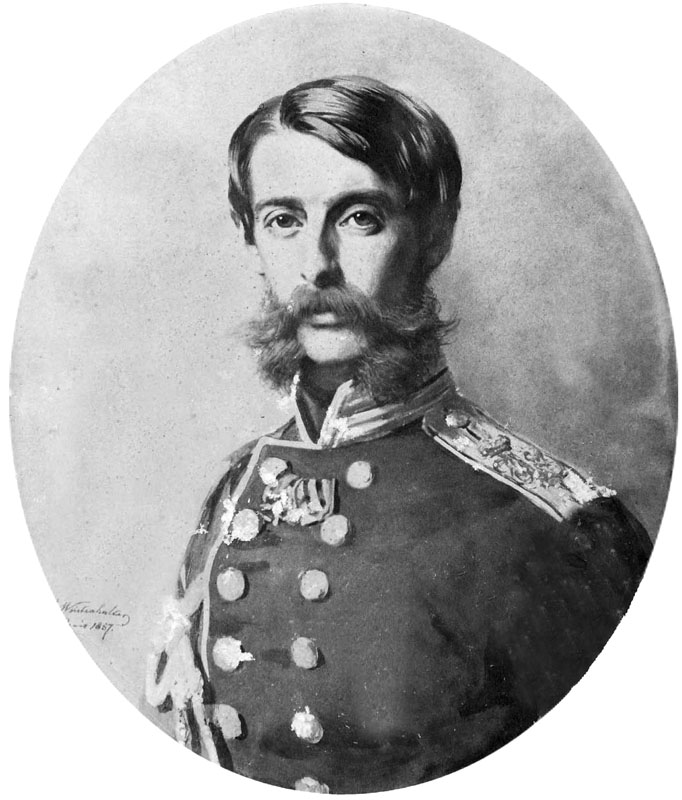 Shuvalov, Graf Andrey Pavlovich